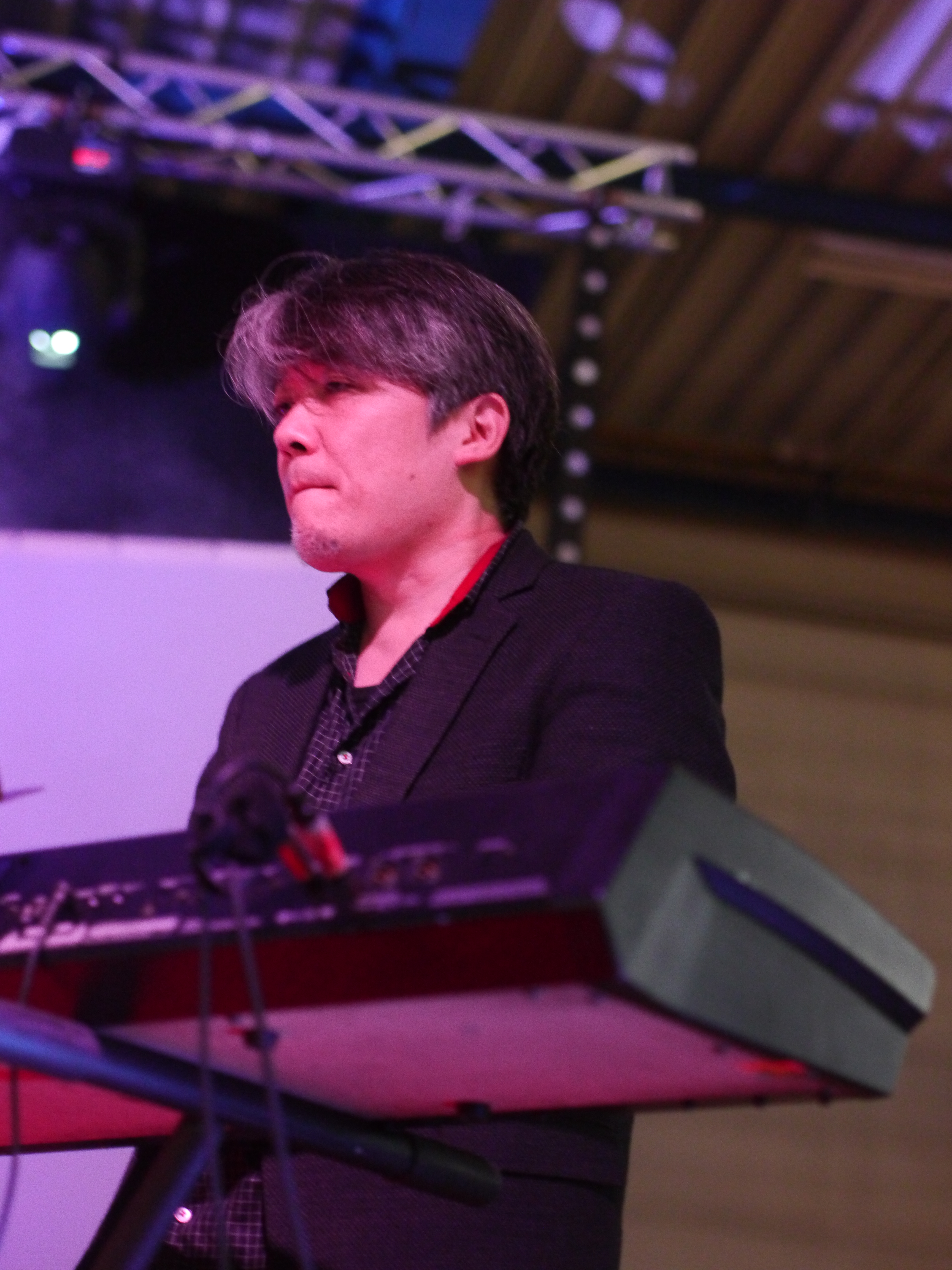 Toulouse Game Show Festival, 6th edition.